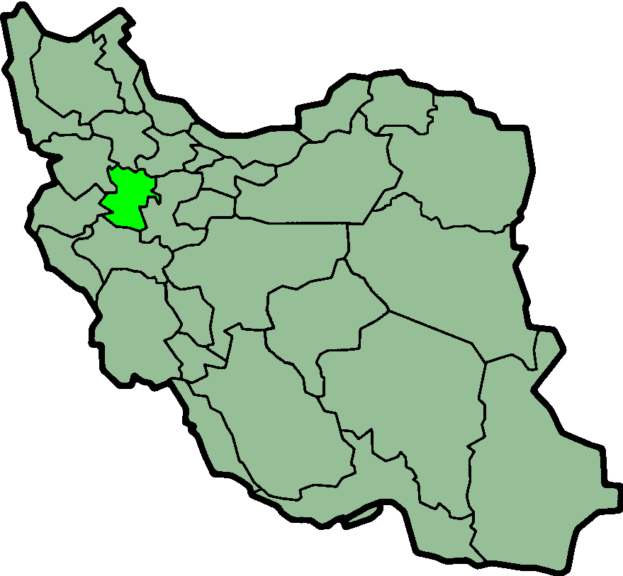 Province of Hamadan, Iran